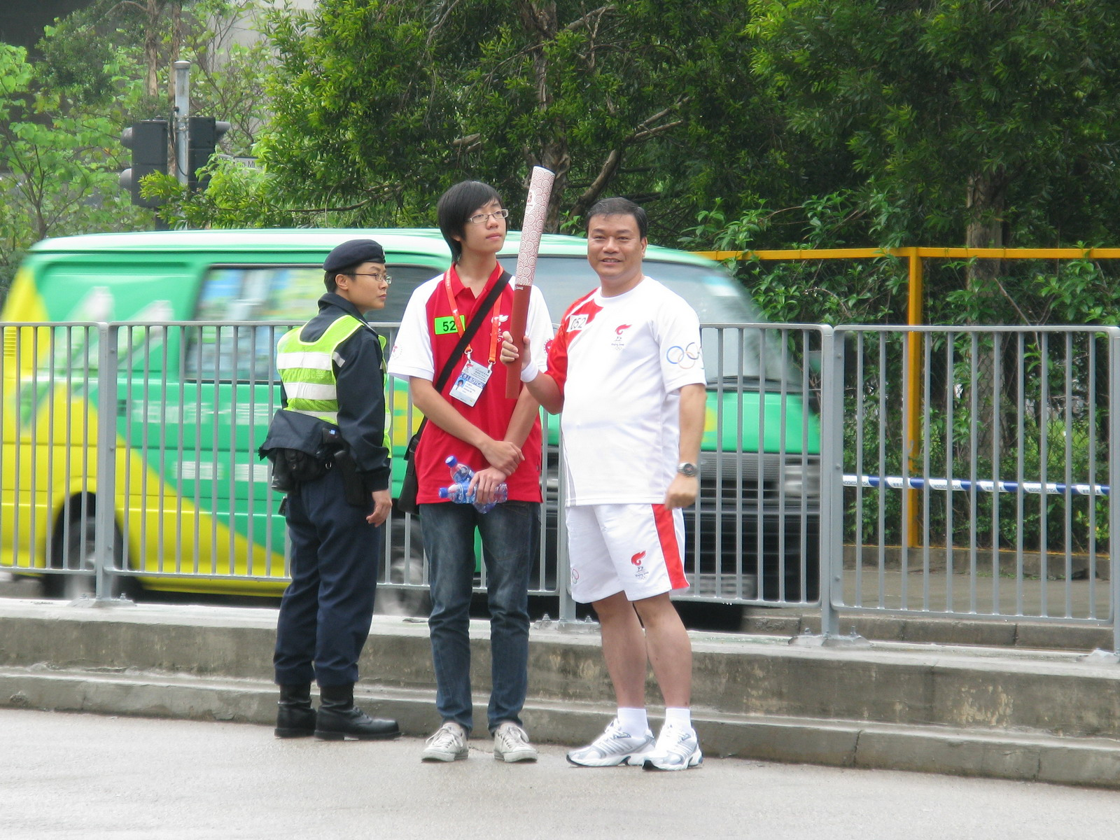 CHAN Kok Wah, Torchbearer No.52, Olympic Torch Relay in Hong Kong